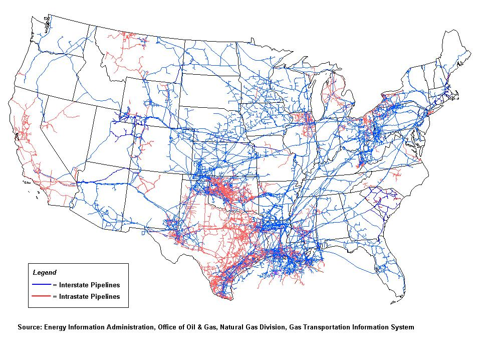 Map of US natural gas pipelines prepared by the Energy Information Administration of DOE, posted at